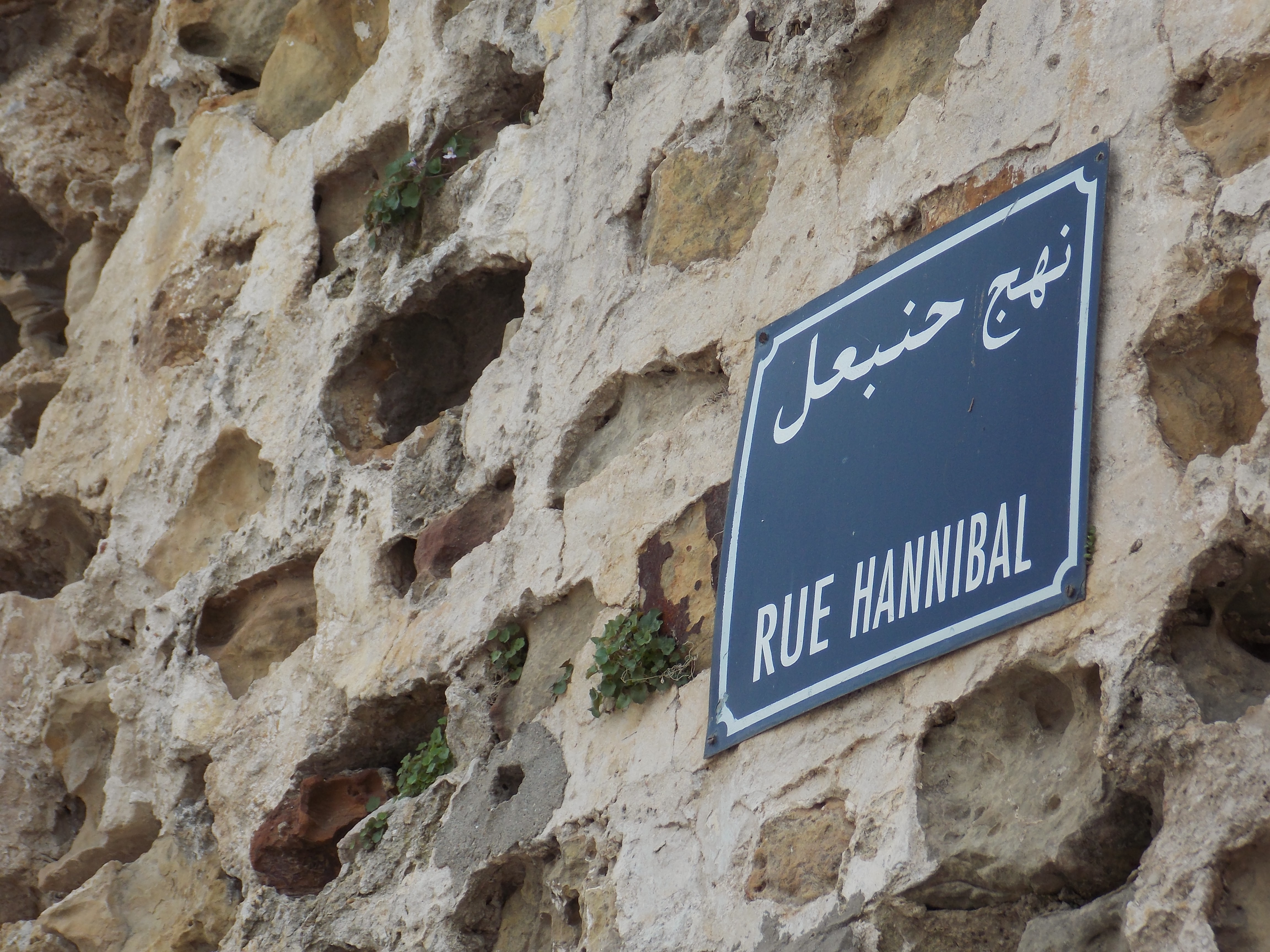 Street Sign in La Goulette